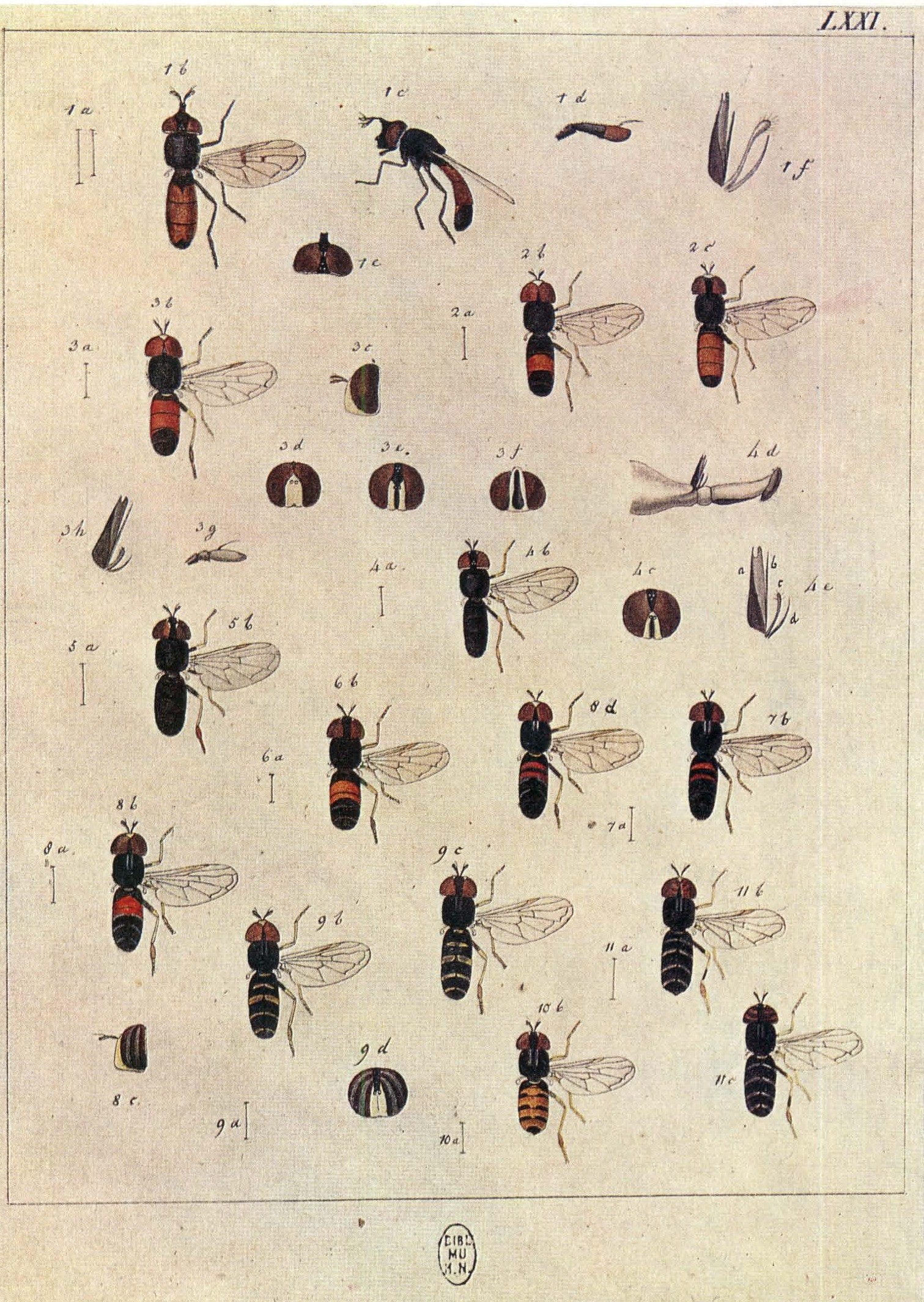 Johann Wilhelm Meigen, 1790 Abbildung der europäischen zweiflügeligen Insekten nach der Natur Von Joh. Wilh. Meigen zu Stolberg bei Aachen 1 Taf LXXI text Valid names and synonyms at Catalogue of Life (Annual Checklist) and Nomenclator.Types at MNHN collections database Note Europäischen Zweiflügeligen includes species described by previous authors - Linnaeus, Fallen, Wiedemann, Fabricius, Scopoli, Forster, Rossi, Macquart, Robert etc. Psarus abdominalis (Fabricius, 1794) Paragus zonatus Meigen, 1822 Junior Synonym of Paragus (Pandasyopthalmus) tibialis Paragus (Paragus) bicolor (Fabricius, 1794) Paragus (Pandasyopthalmus) tibialis (Fallen, 1817) Paragus ater Meigen, 1822 Paragus taeniatus Meigen, 1822 Junior Synonym of Paragus (Paragus) bicolor Paragus arcuatus Meigen, 1822 Junior Synonym of Paragus (Paragus) bicolor Paragus (Paragus) quadrifasciatus Meigen, 1822 Paragus (Paragus) strigatus Meigen, 1822 Paragus (Paragus) albifrons (Fallen, 1817